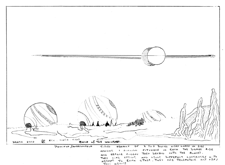 Description: Sketch of alien planet landscape sent to the Ministry of Defence. Date: January 2004 Our Catalogue Reference: DEFE 24/2039 p.261 This image is from the collections of The National Archives. Feel free to share it within the spirit of the Commons. You can view the latest UFO files transferred from the Ministry of Defence at: .uk/ For high quality reproductions of any item from our collection please contact our image library.